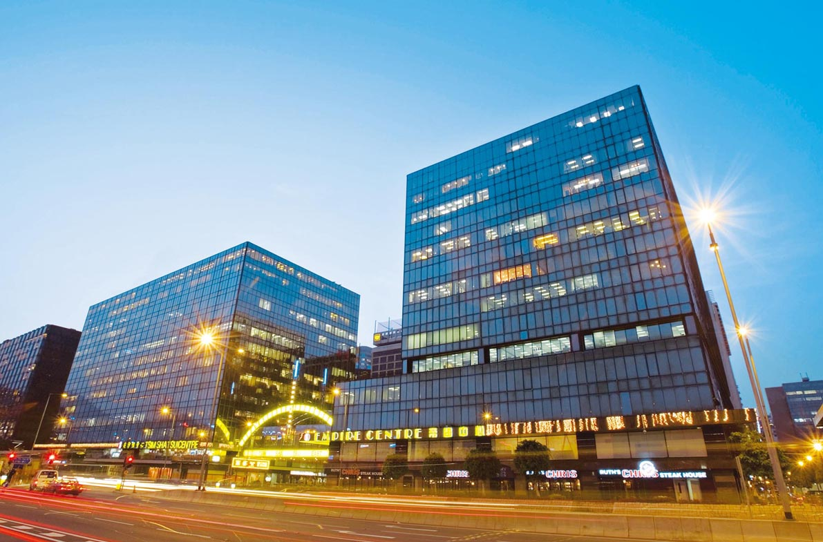 A frontal snapshot of Tsim Sha Tsui Center and Empire Center, Hong Kong.